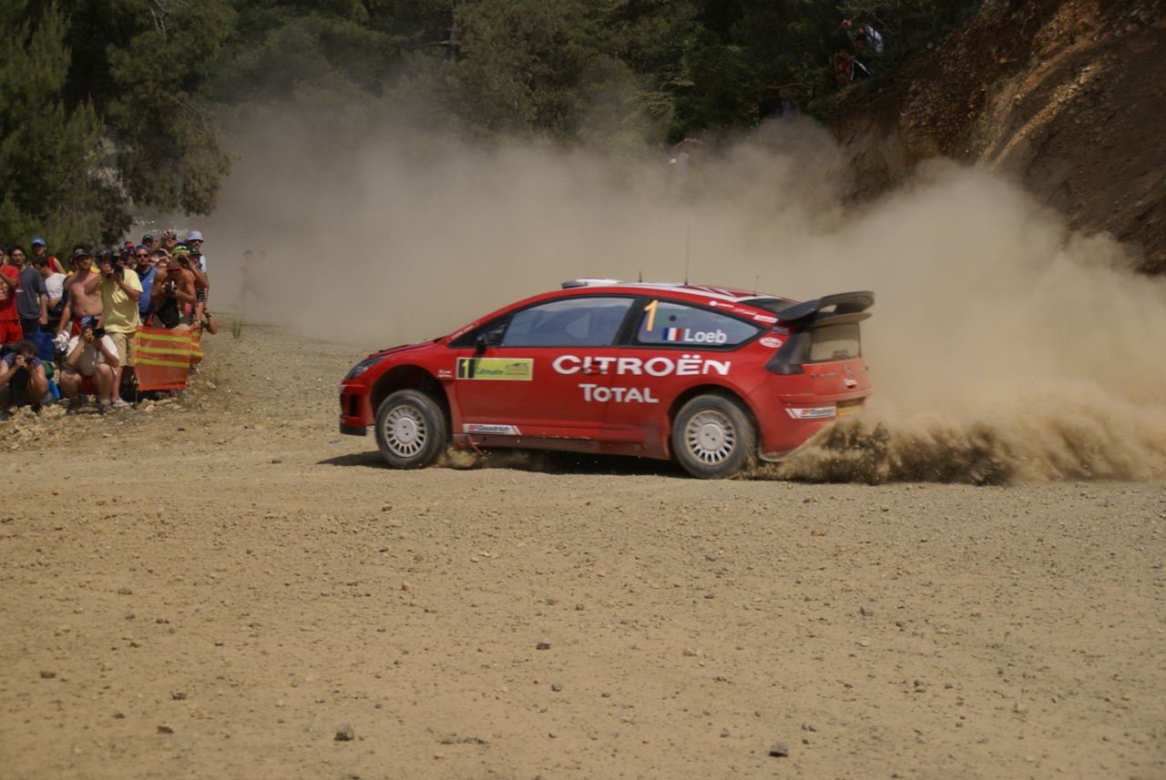 Sébastien Loeb during the Agioi Theodoroi SS in the 2007 Acropolis Rally